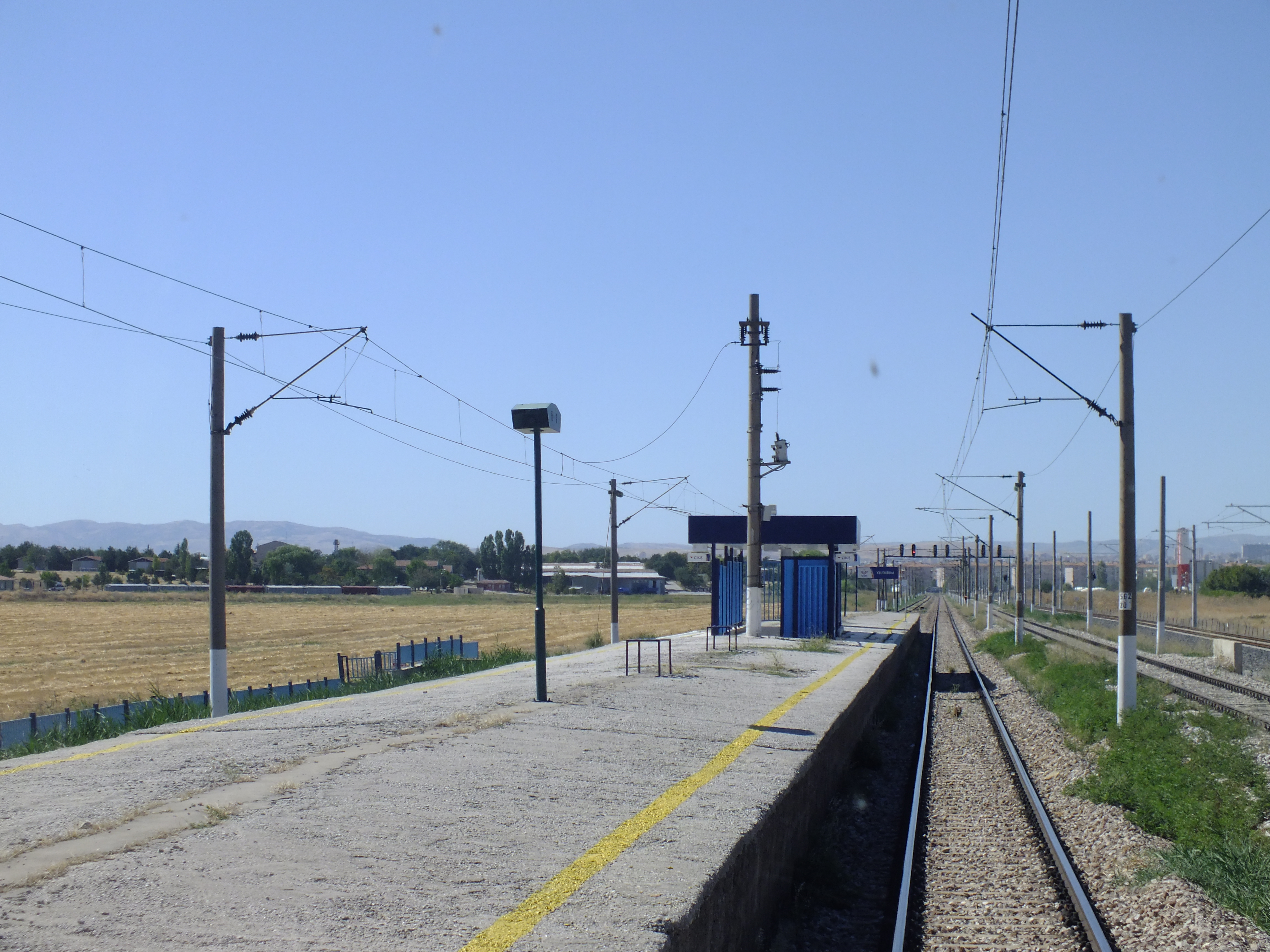 Yildirim railway station.